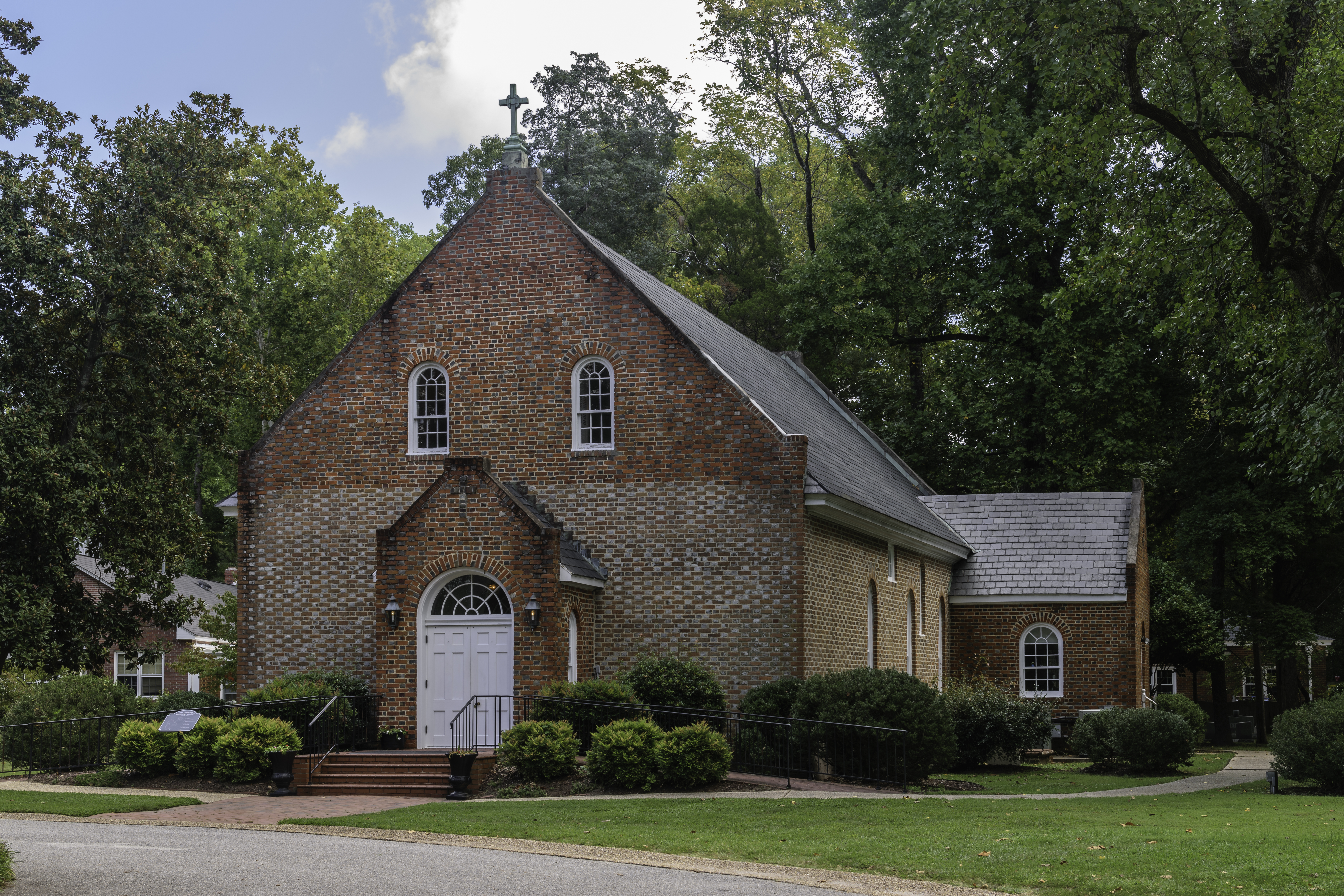 Old Donation Episcopal Church in Virginia Beach, Virginia. Founded in 1637 and rebuilt and remodeled several times since then.